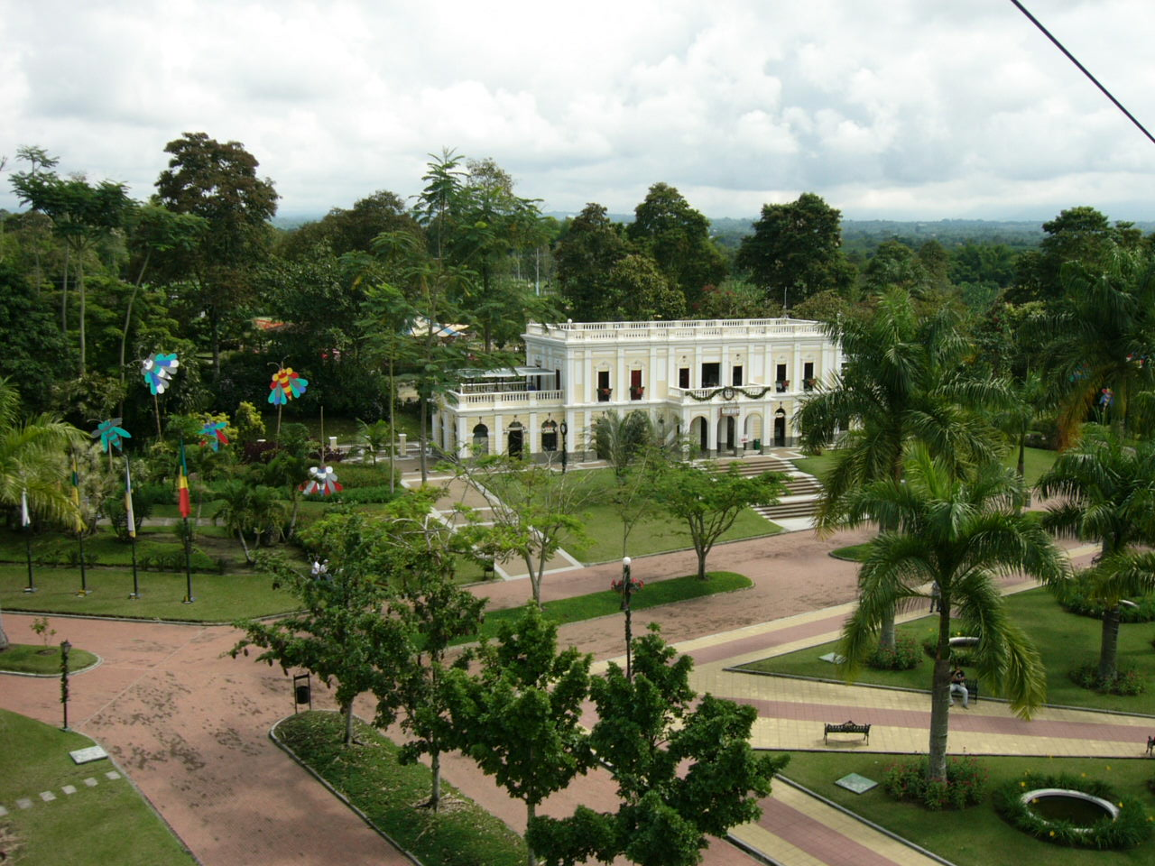 Colombian National Coffee Park